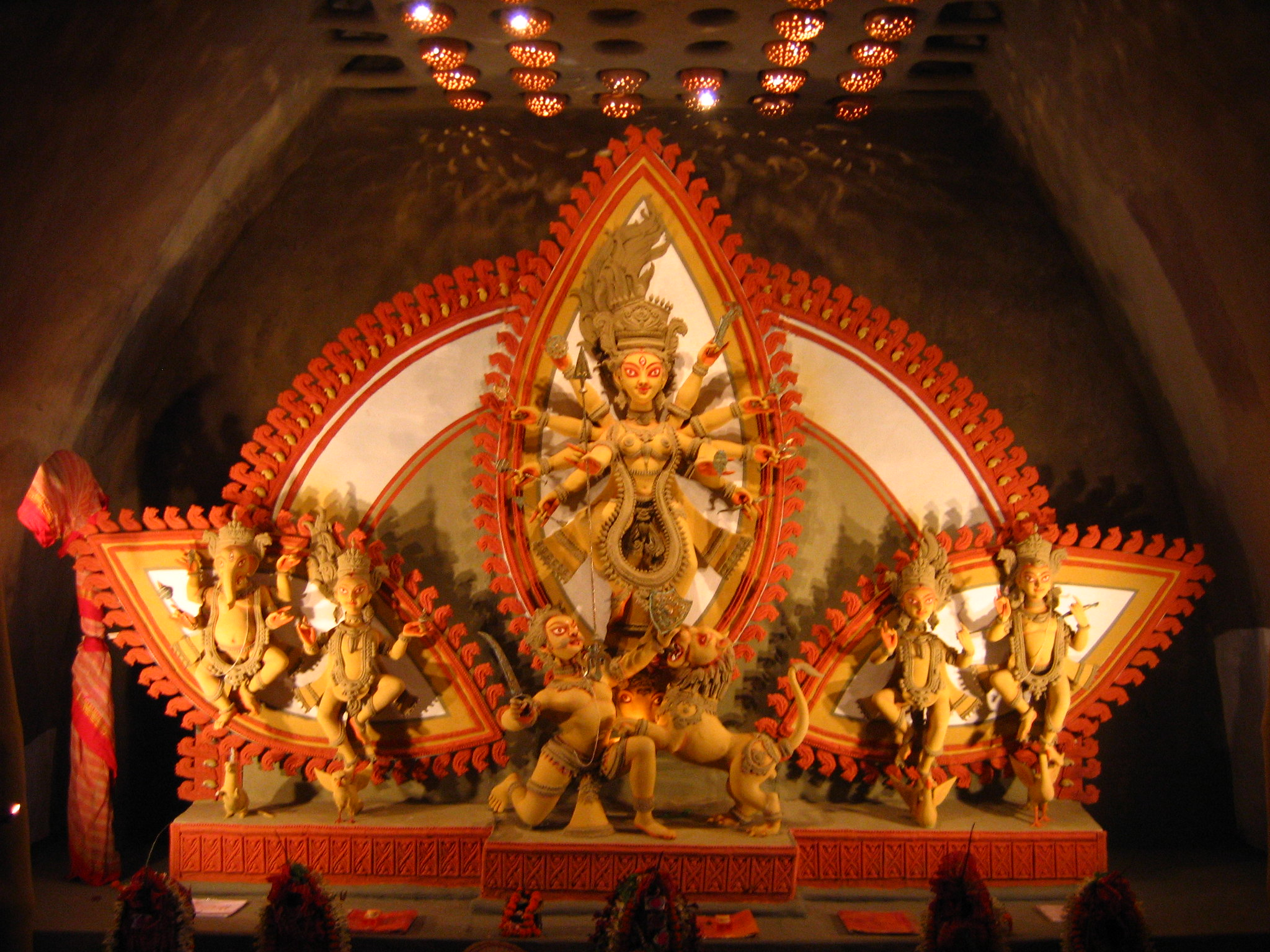 Natunpally Pradeep Sangha is the first puja committee to win Best Puja for three consecutive years in 2006 (Artist Bhabatosh Sutar), 2007 (Artist Prasanta Pal) and 2008 (Artist Prasanta Pal)